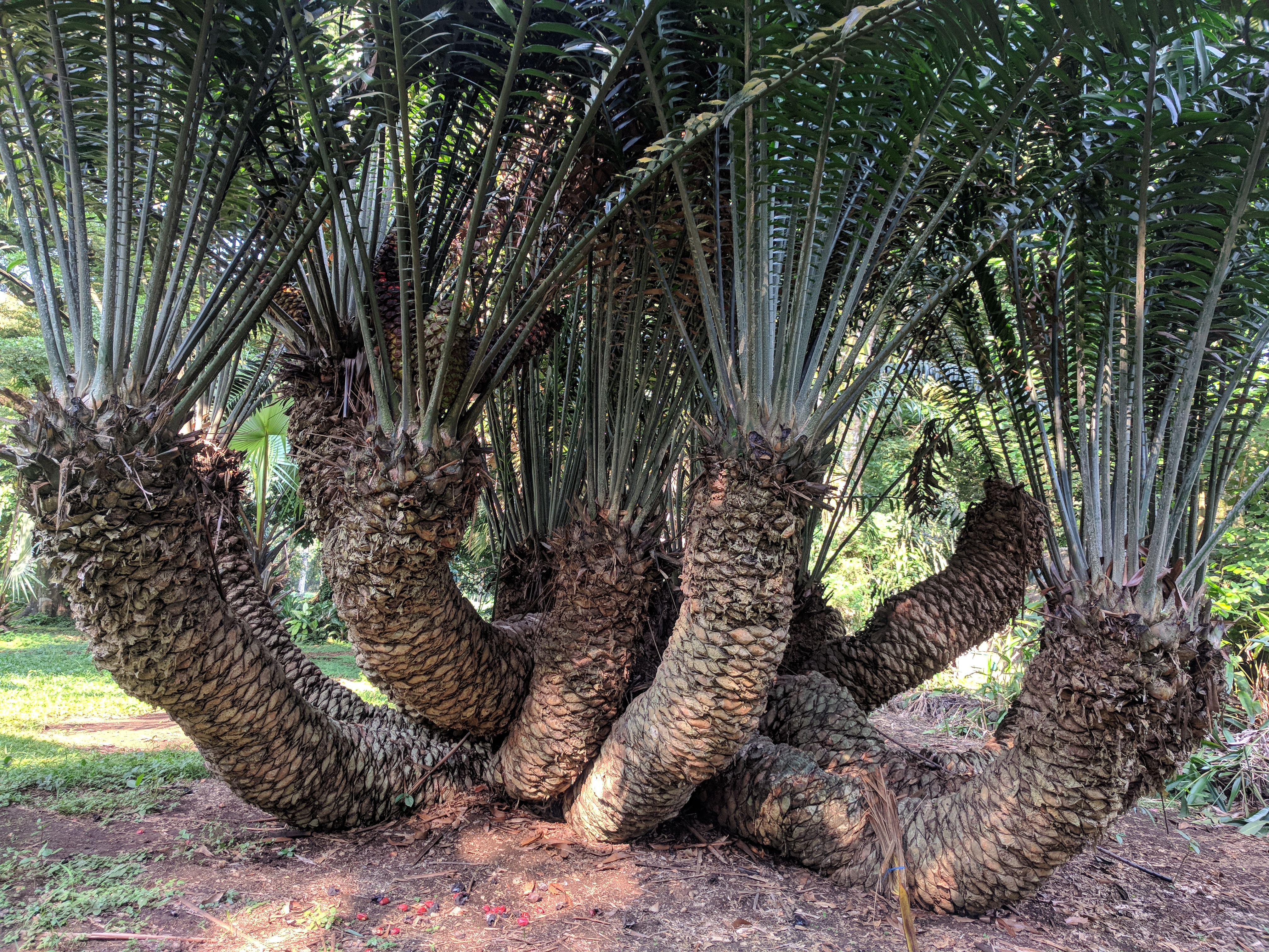 A picture of Encephalartos Natalensis plant found in Limbe botanical garden in the South West Region of Cameroon